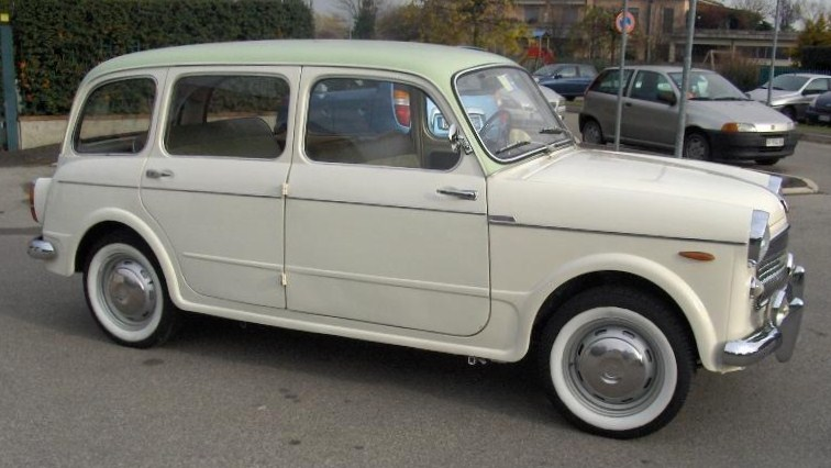 Fiat 1100